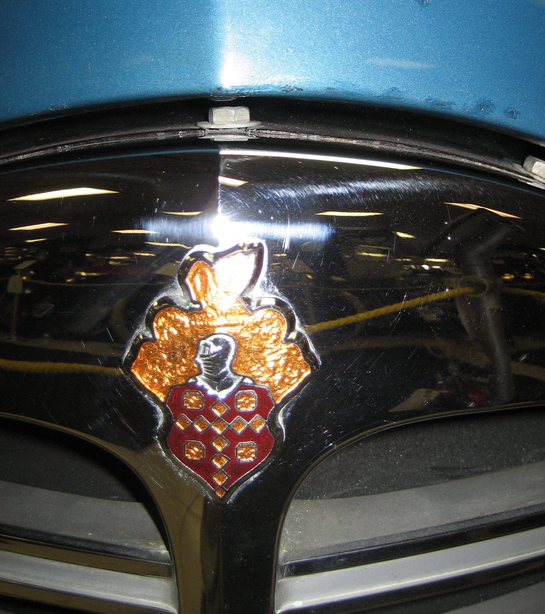 1950 Packard Super Eight on display at Tallahassee Automobile Museum . Detail of marque on front of grill.